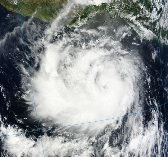 Hurricane Celia